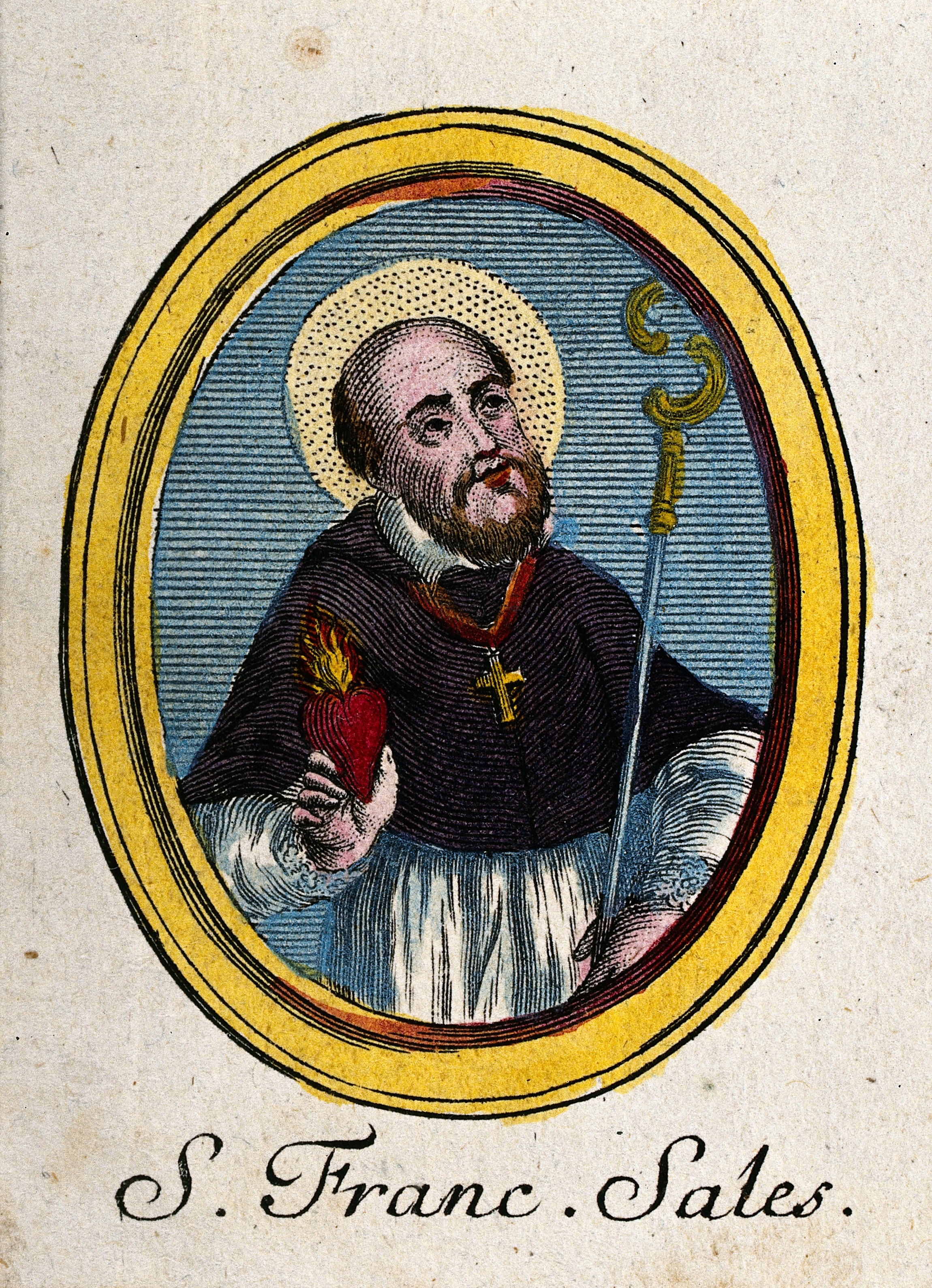 Saint Francis of Sales. Coloured etching. Iconographic Collections